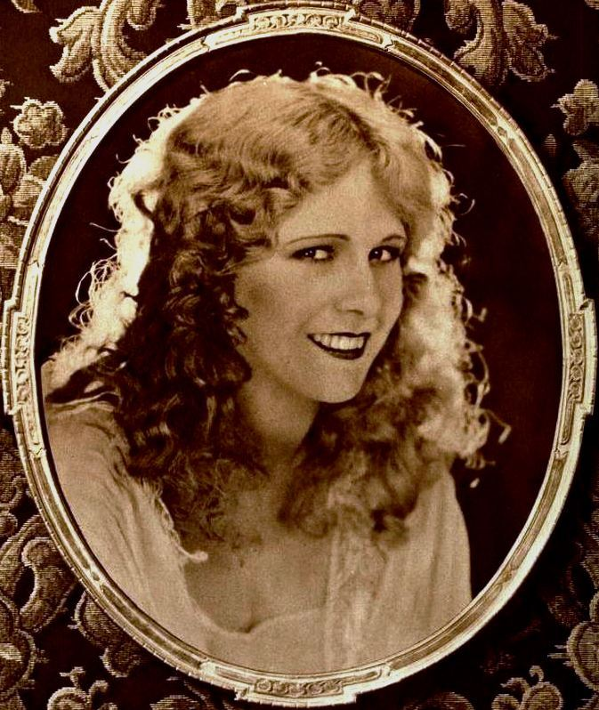 Actress Betty Francisco, on page 14 of the May 1922 Photoplay.